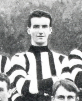 Photograph of Tommy Worle in 1907